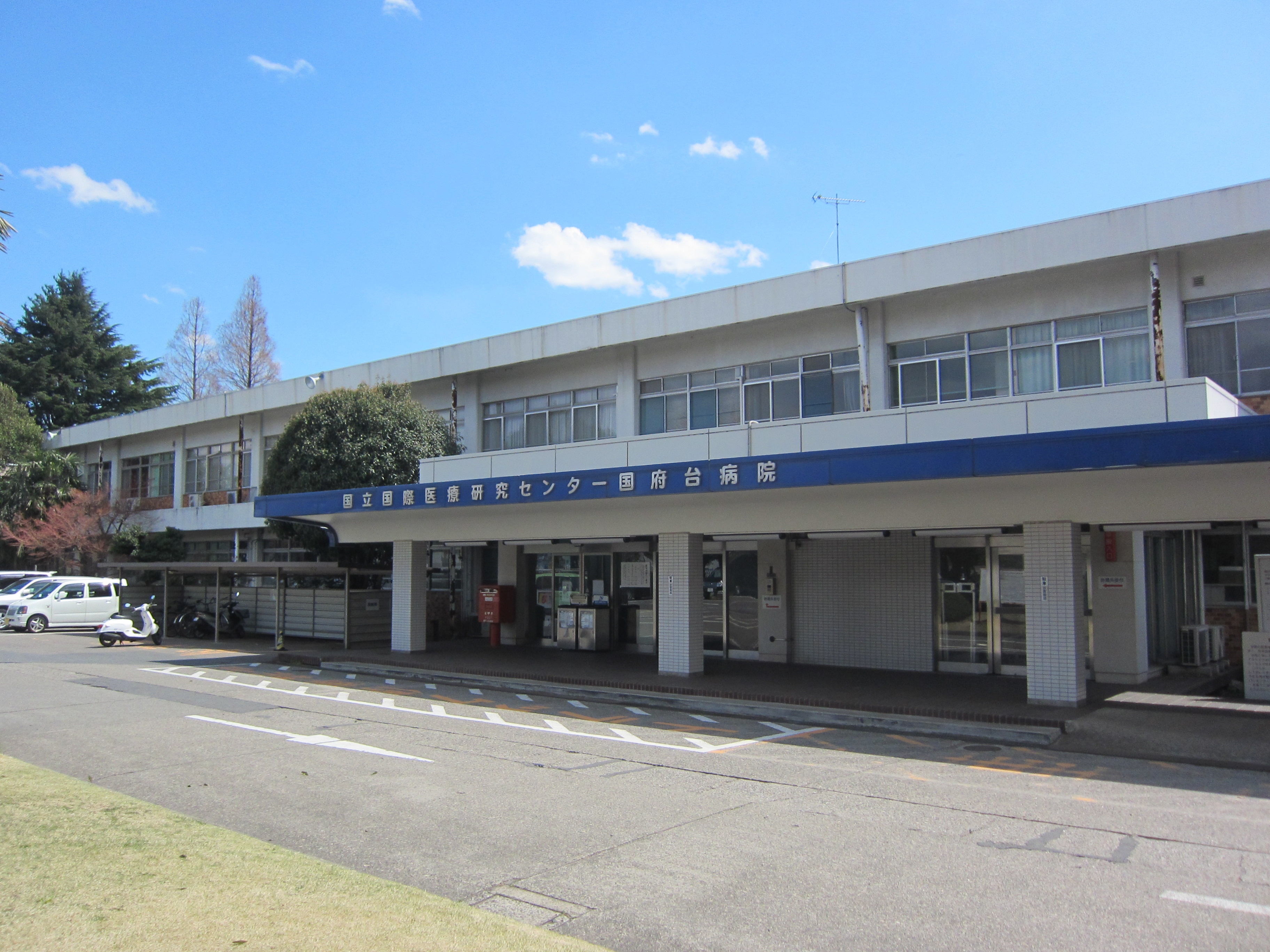 National Center for Global Health and Medicine Kohnodai Hospital